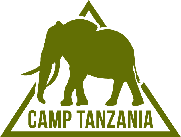 Logo for Camp Tanzania, a subsidiary of Camps International.